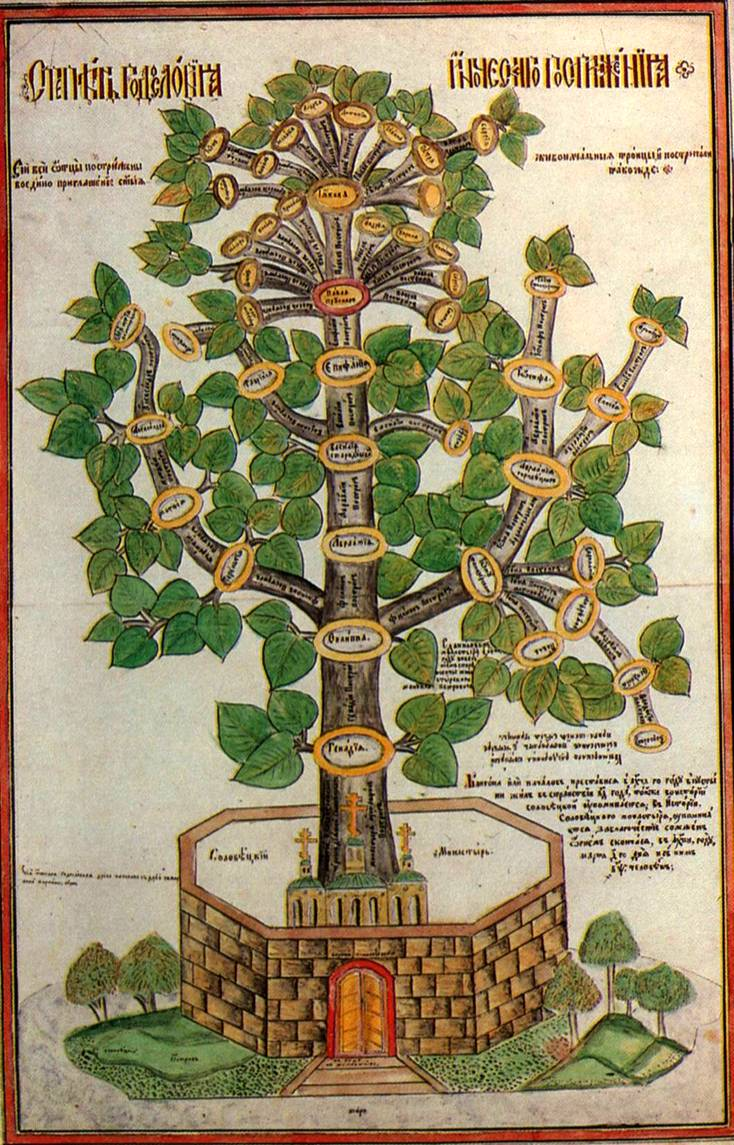 Family tree of the Solovetsky Monastery. A hand-drawn lubok from the 1870s.